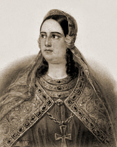 Theresa, Countess of Portucale